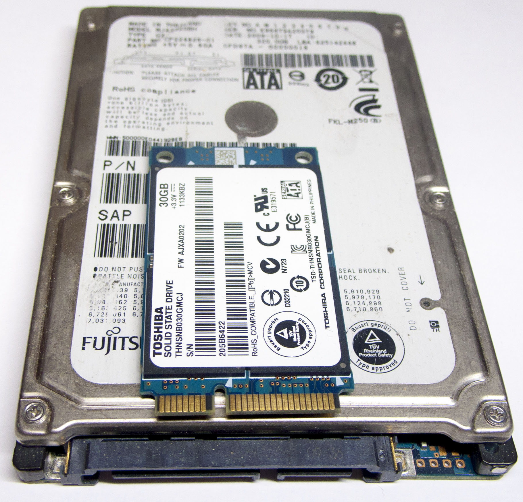 A Toshiba 30GB mSATA SSD on top of a 2.5" 9 mm high Fujitsu 320GB Hard Drive